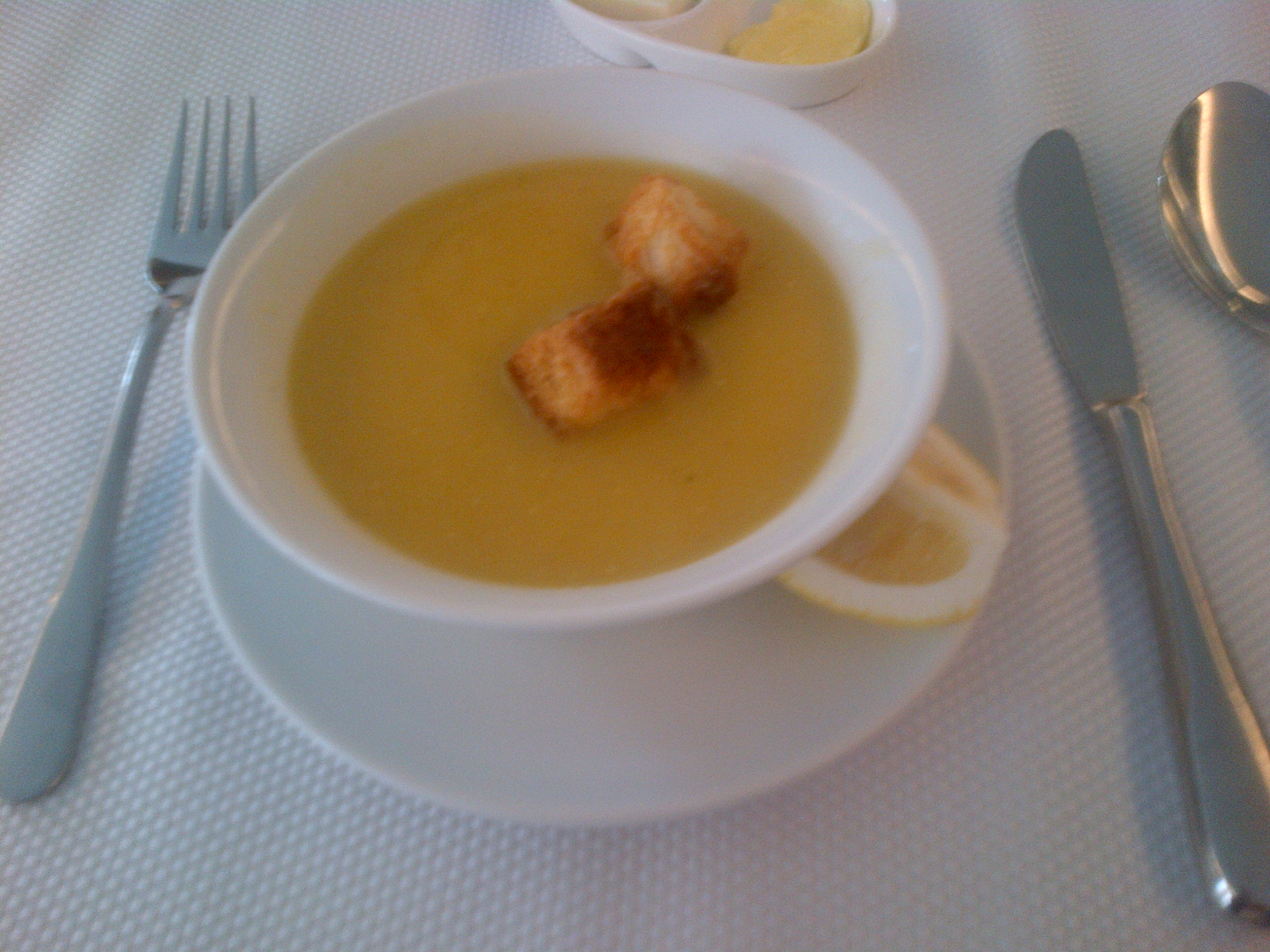 Lentil soup (Mercimek çorbası), Turkish style.